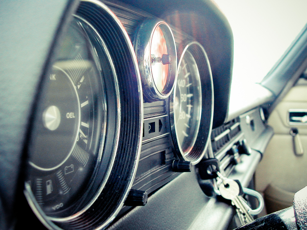 Mercedes-Benz W115 instruments cluster